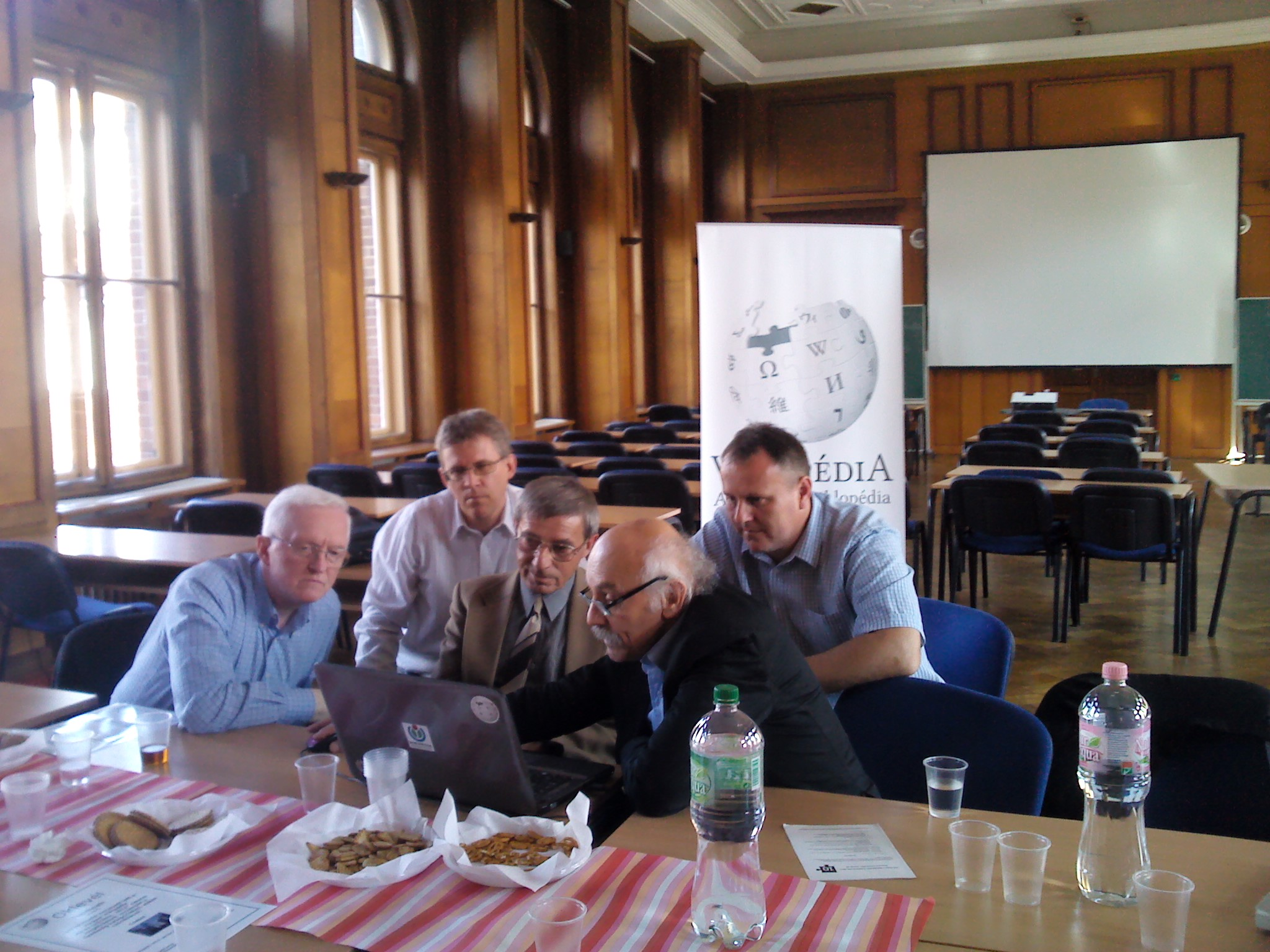 HuWiki meetup on 2nd June, 2013